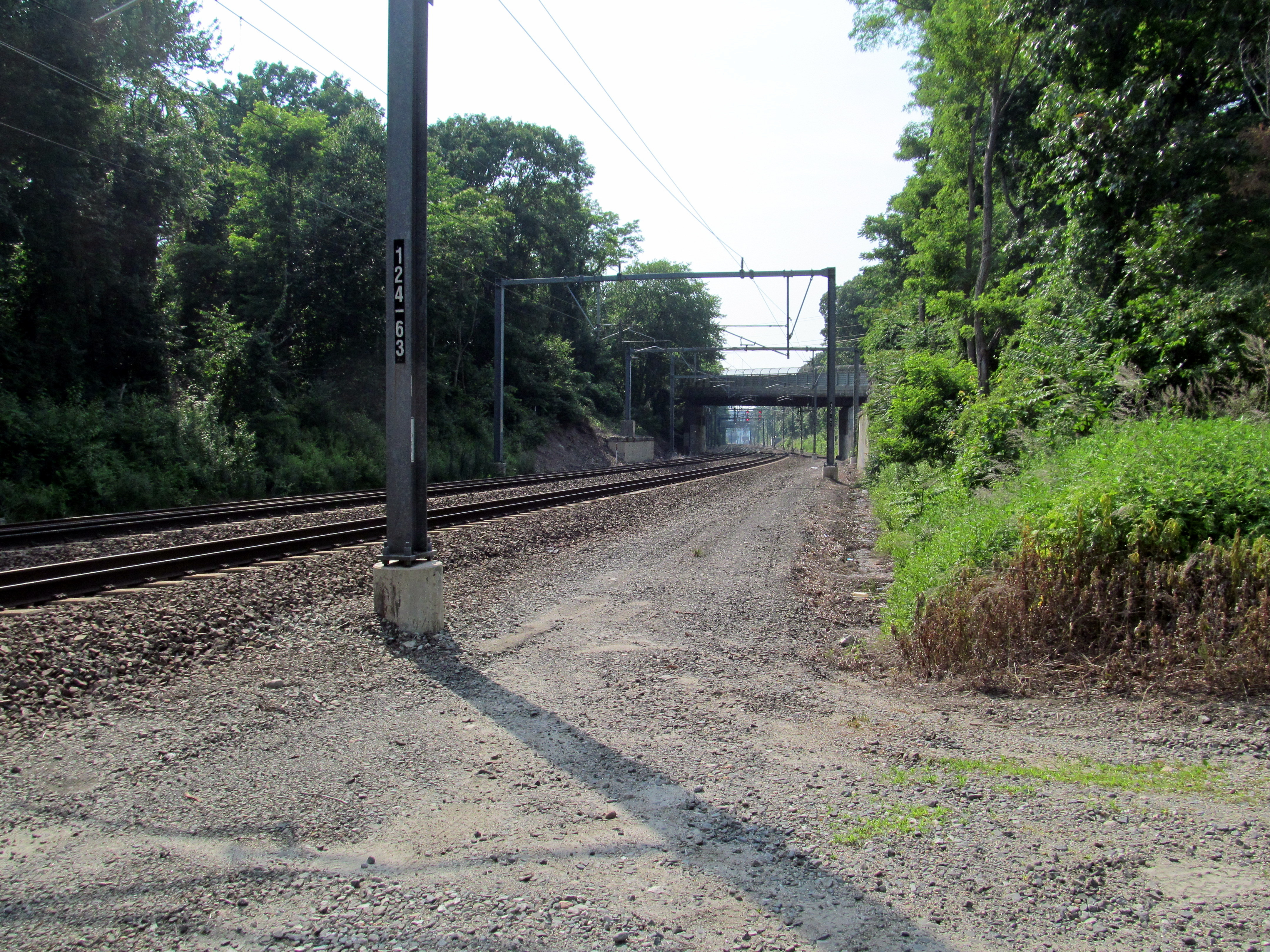 Site of the short-lived Amtrak station in Groton, Connecticut